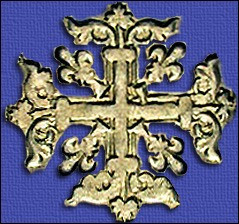 Gilgenkreuz, symbol used on the reverso of the Gigliato-Coin by Charles II. de Anjou and Kingdom of Naples